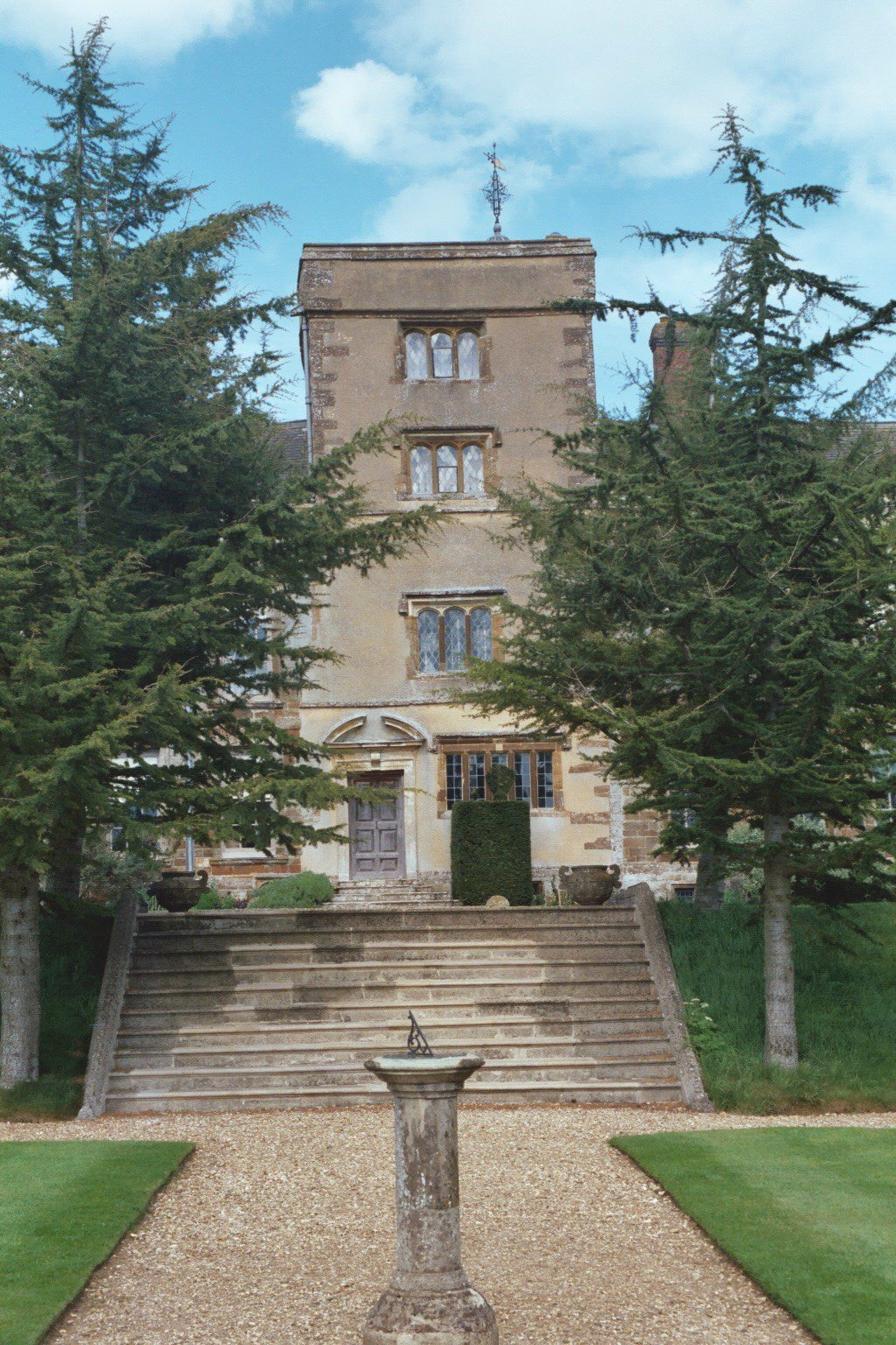 Canons Ashby house - from the back garden. Picture by R Neil Marshman (c)